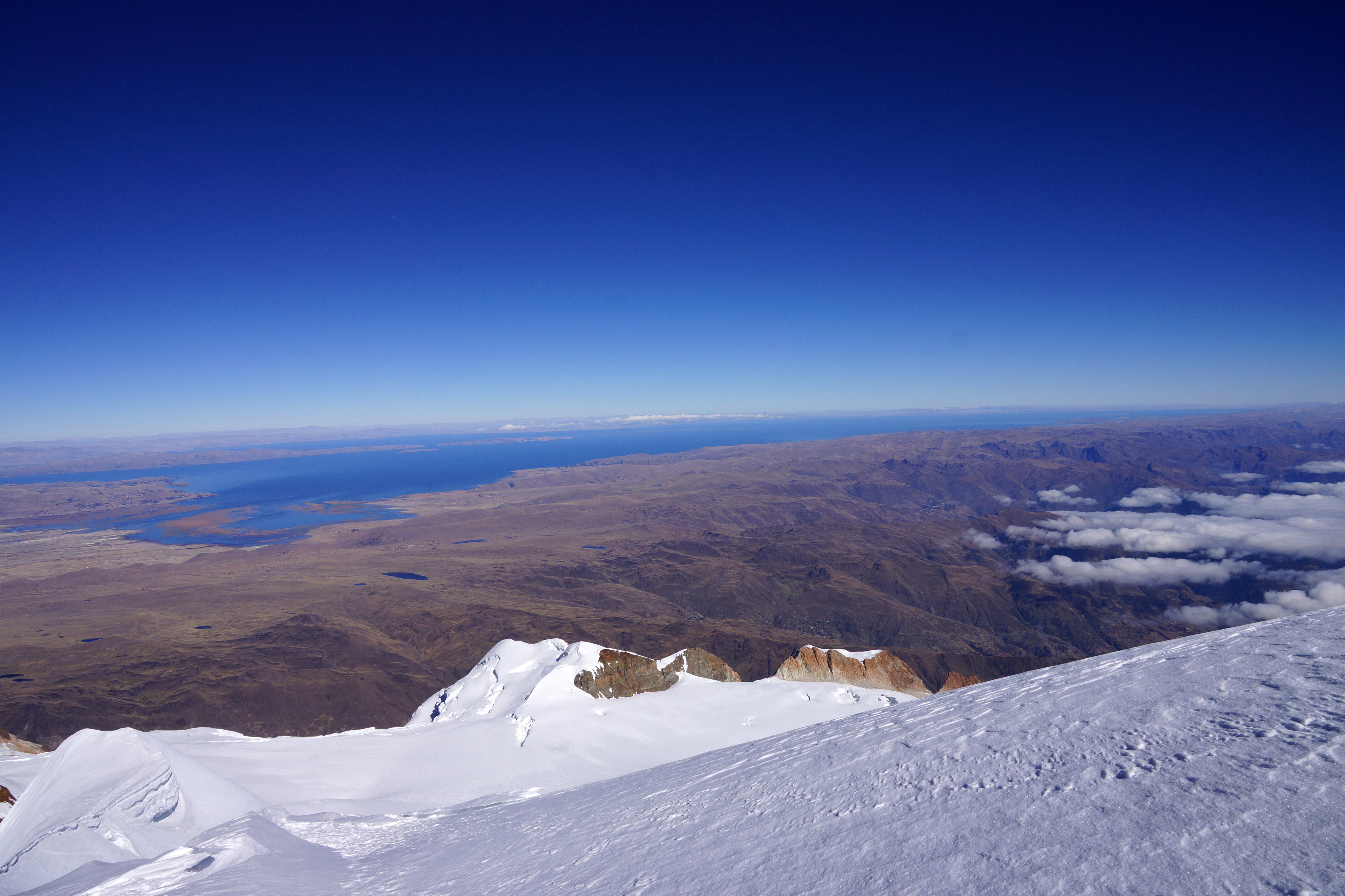 View from the summit of the Nevado Ancohuma (6427m) over parts of the Lake Titicaca.